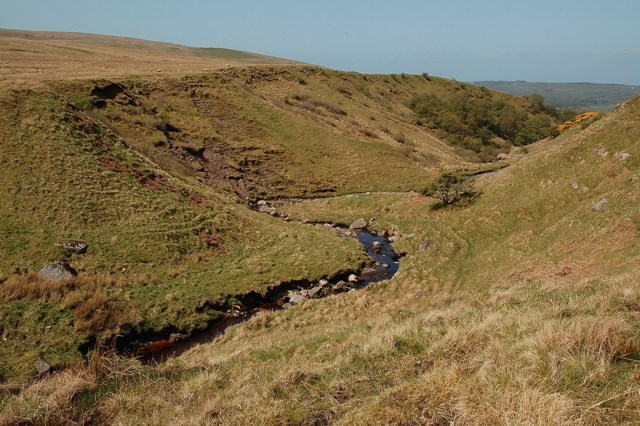 Dobbingstone Burn Looking downstream at the point where the burn enters a narrow part of its valley. This is a typical small burn cutting through relatively soft glacial deposits. The exposed sides show glacial till with all shapes and sizes of stones. The burn course is littered with huge boulders which have been released from the till.